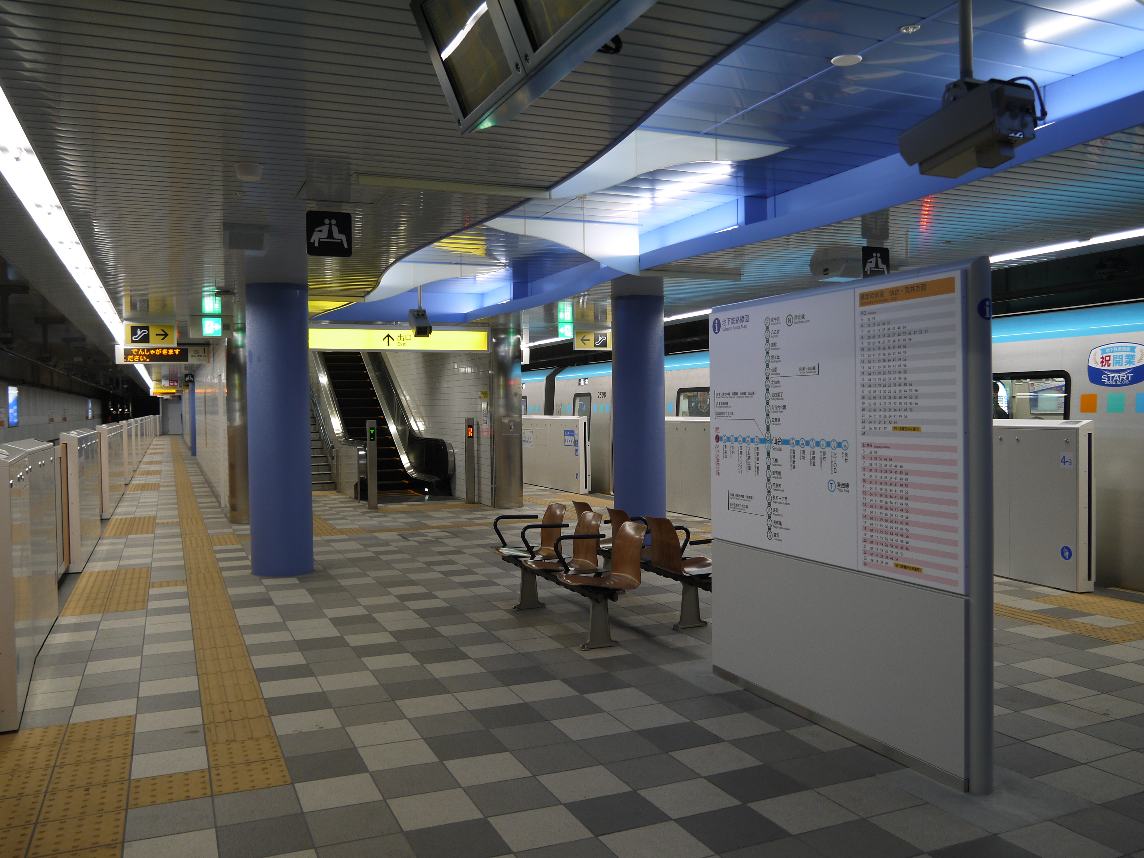 The platform at Yagiyama Zoological Park Station on the Sendai Subway Tozai Line in Miyagi Prefecture, Japan